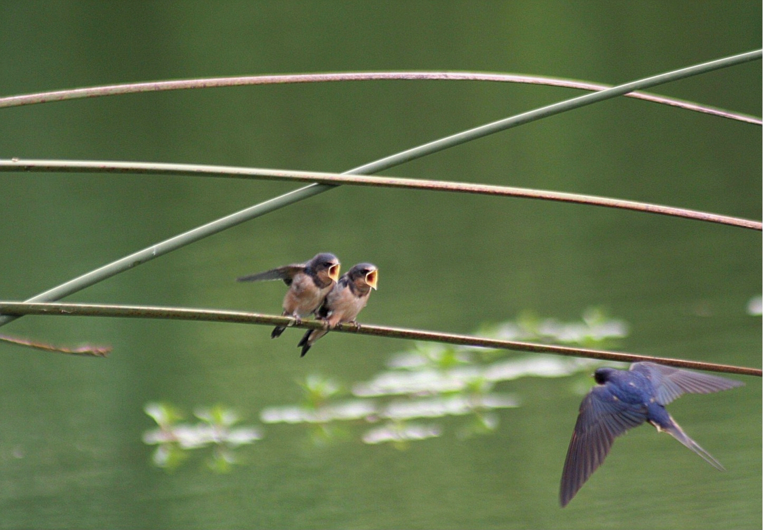 Swallow chicks